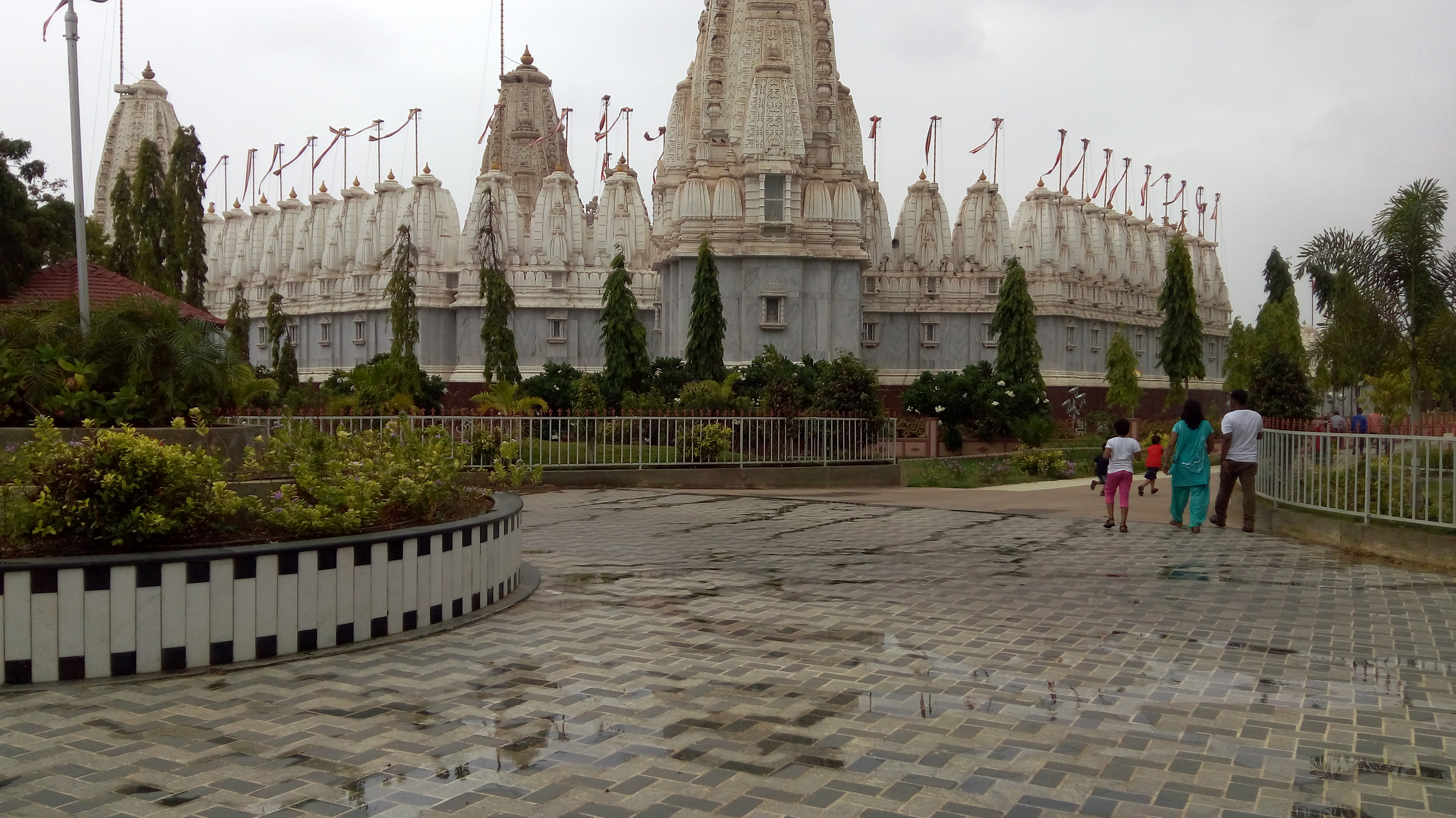 Temple